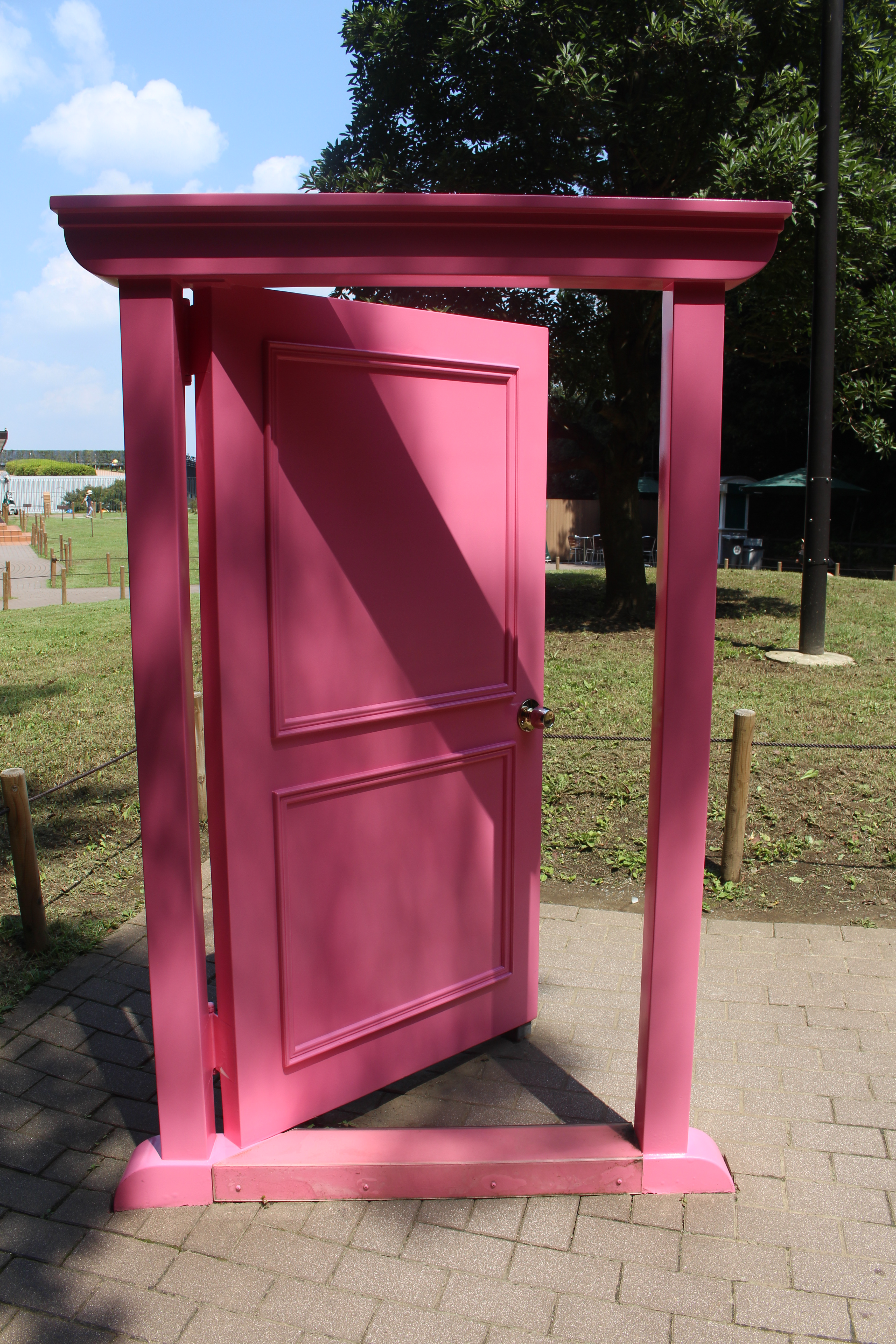 任意門 Anywhere Door